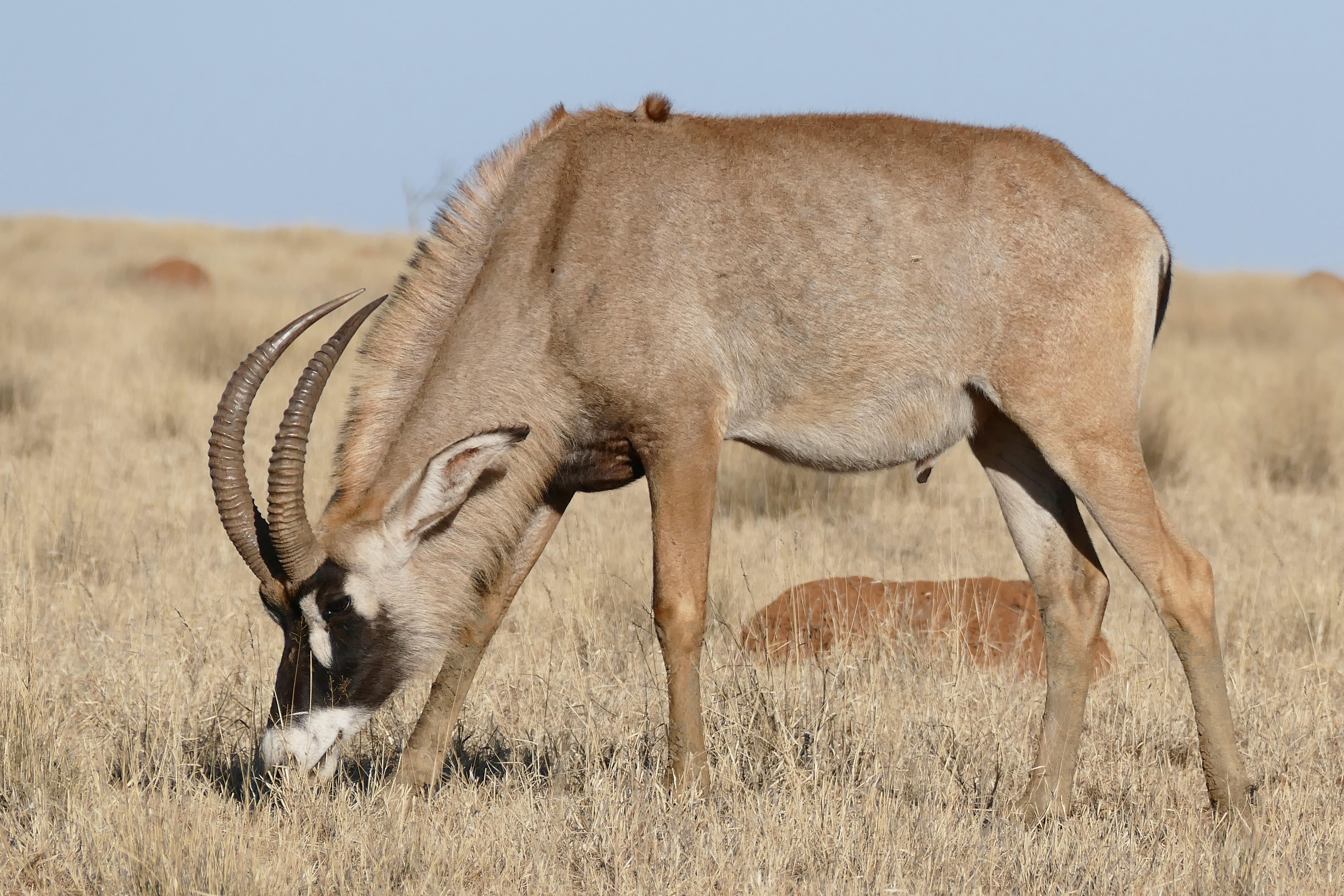 Mokala NP, Northern Cape, SOUTH AFRICA